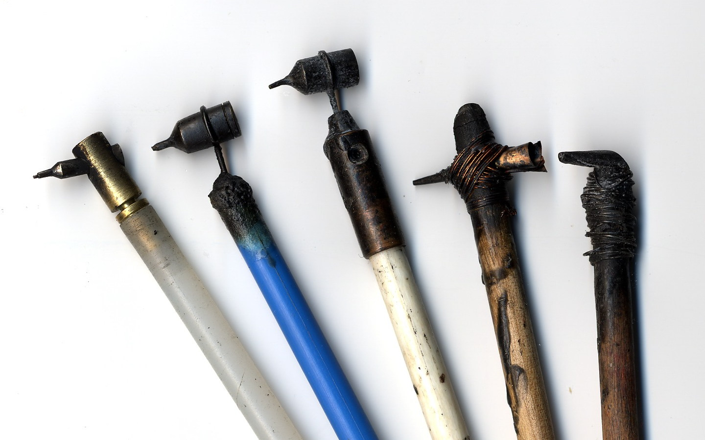 Hot wax pens (pysanka tools)